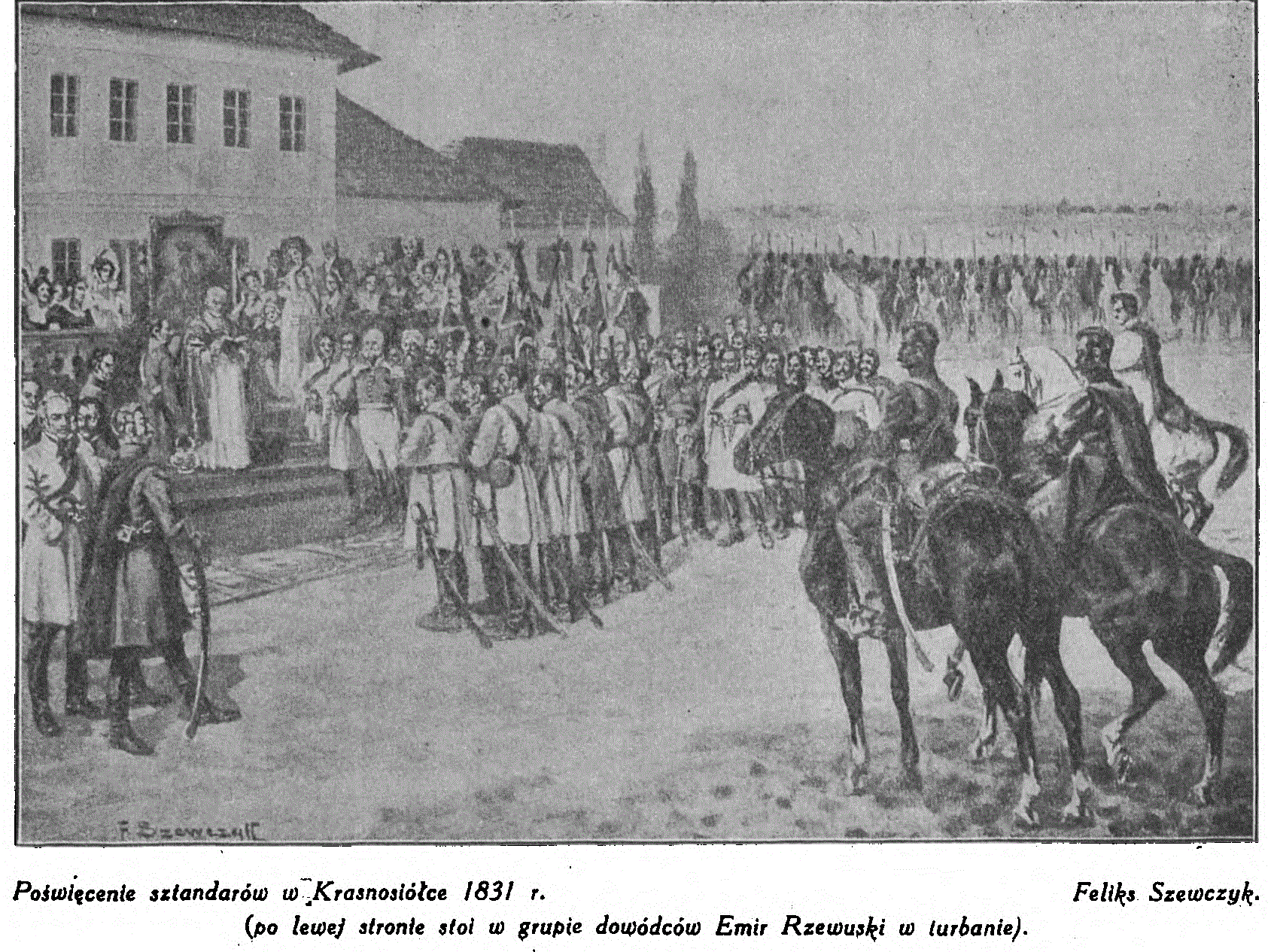 Oath of November Insurgents in Krasnosiolka